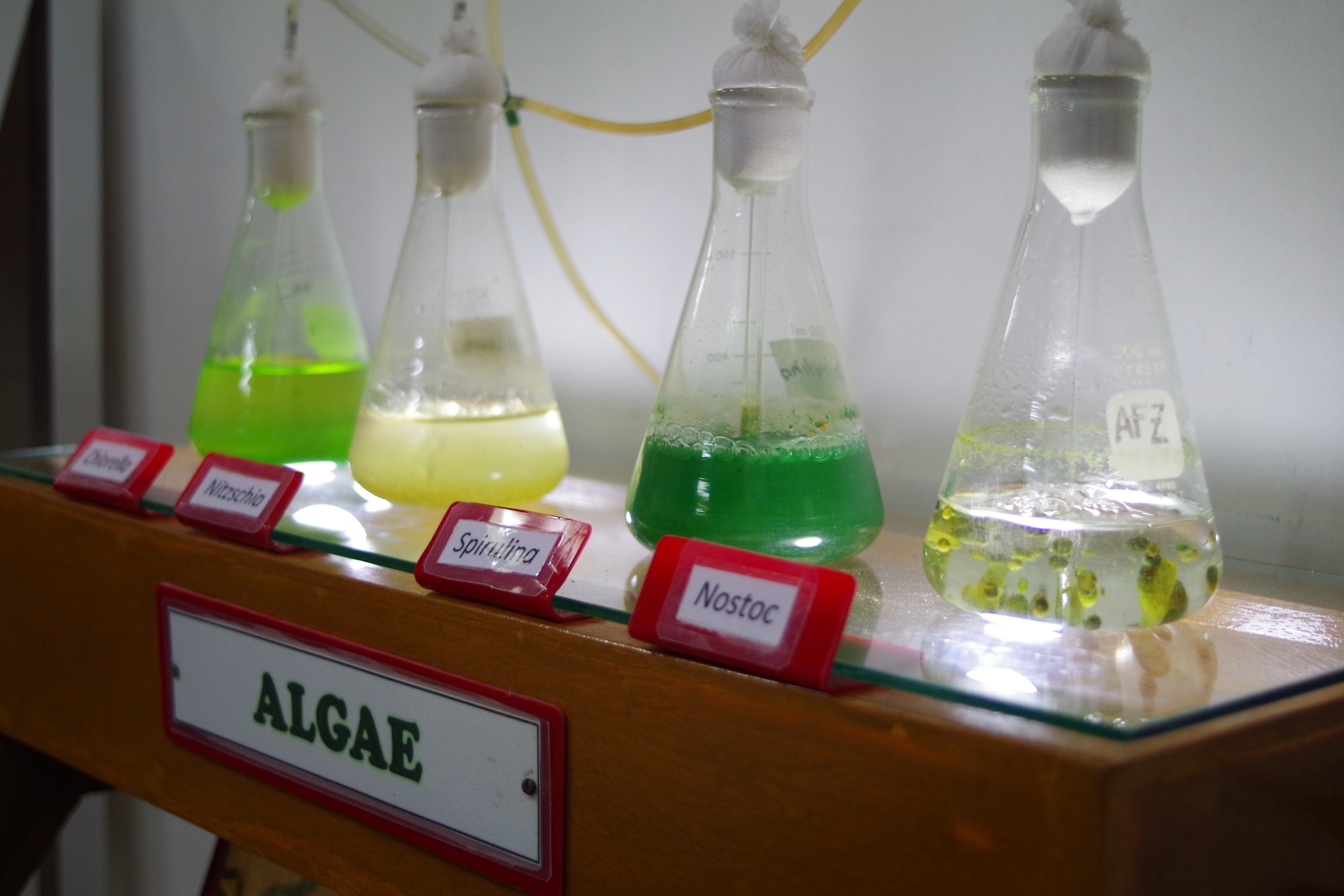 A simple set-up to display freshwater algae in the UPLB MNH.